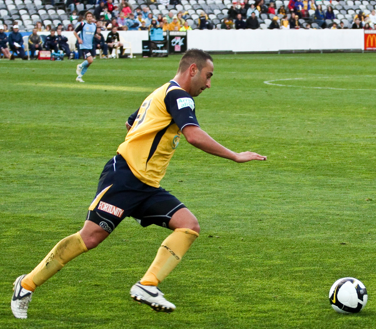 Ahmad Elrich playing for the Central Coast Mariners against Sydney FC.